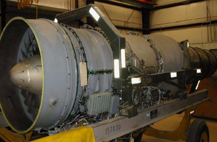 An Allison TF41-A-1B engine, a licence-produced Rolls-Royce Spey.